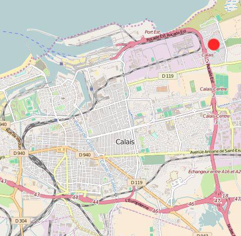 Location of the Calais jungle in greater Calais